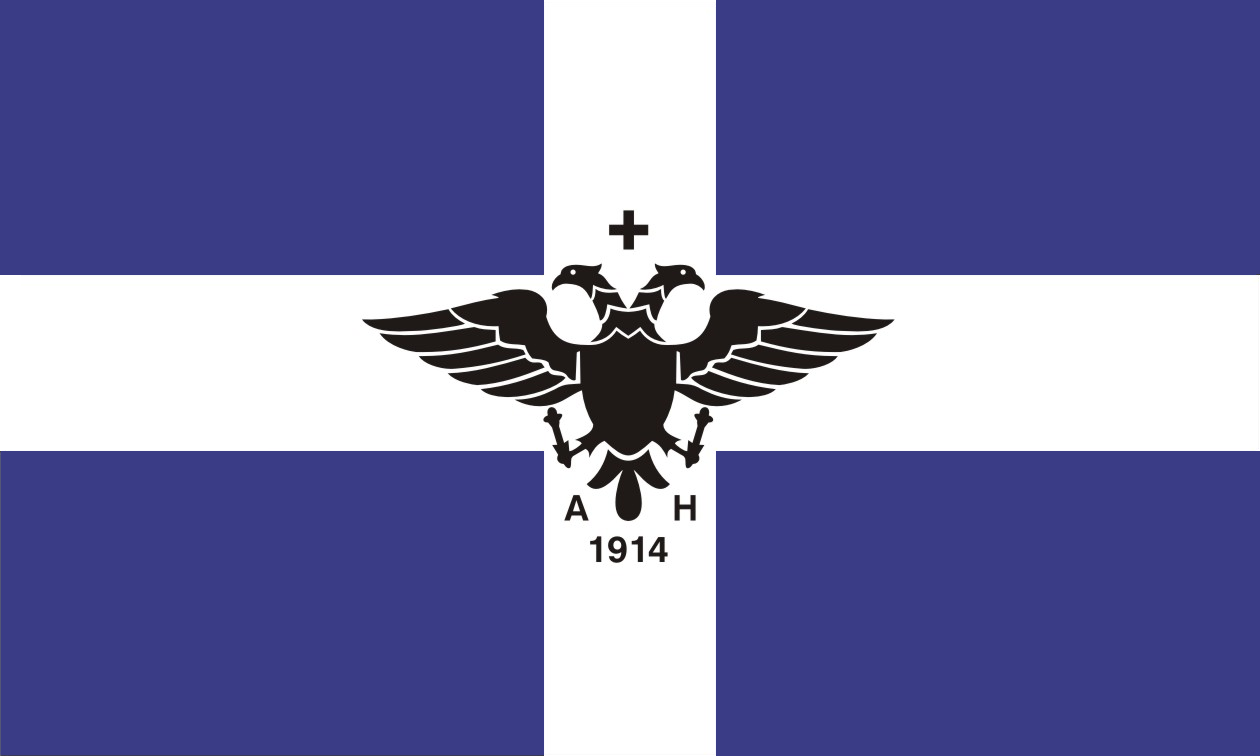 Flag of Northern Epirus